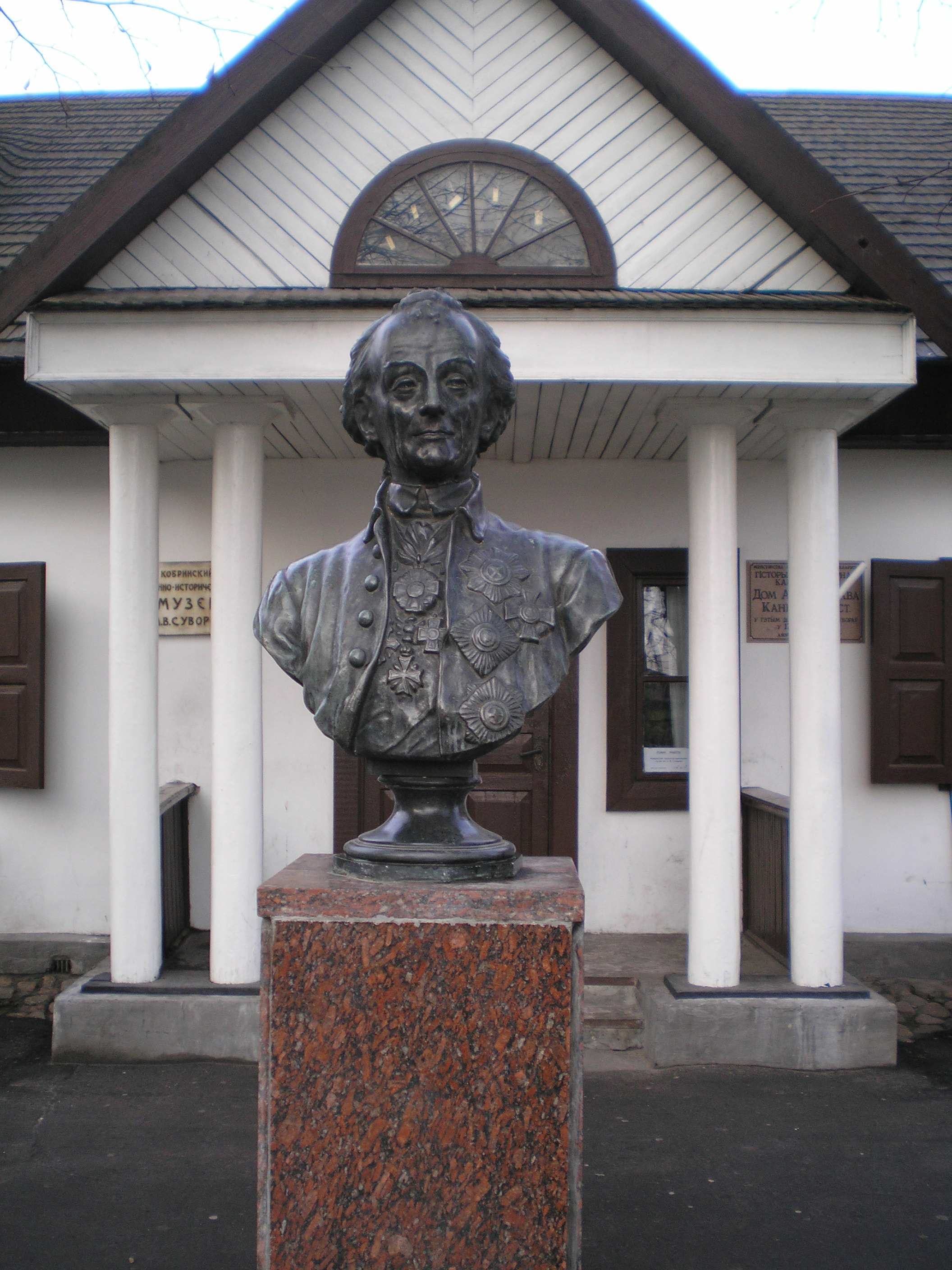 Monument of Suvorov near the Suvorov Museum in Kobrin